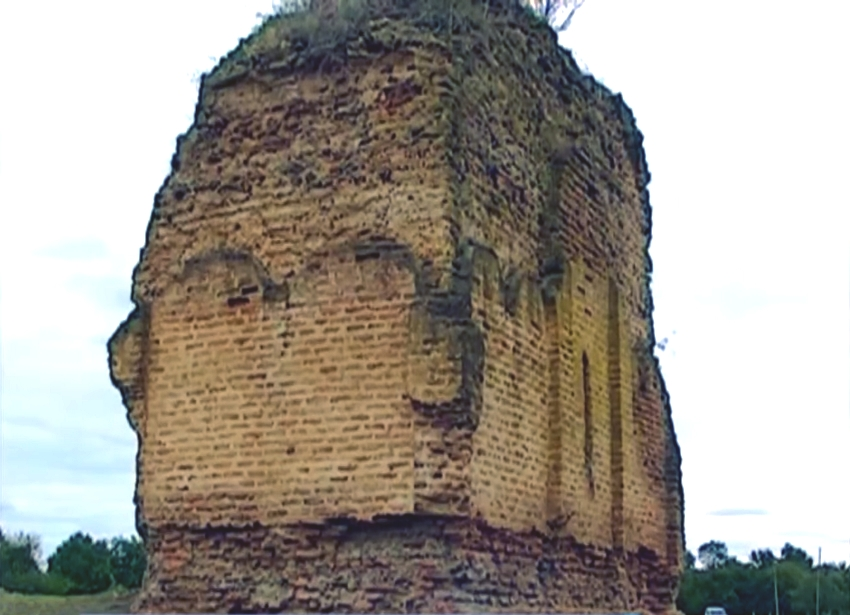 Remnants of an ancient Georgian church of Darvazi near village Darvazbinə, Balakən District, Azerbaijan.